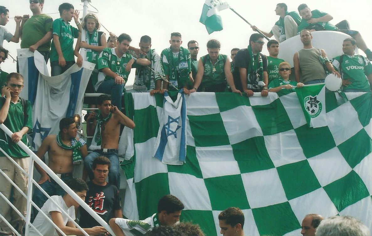 Maccabi Haifa fans 2002